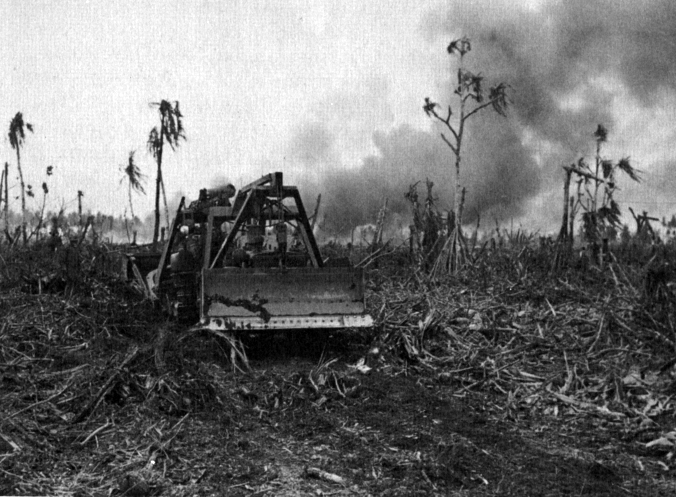 Kwajalein. Bulldozer clears route from beach